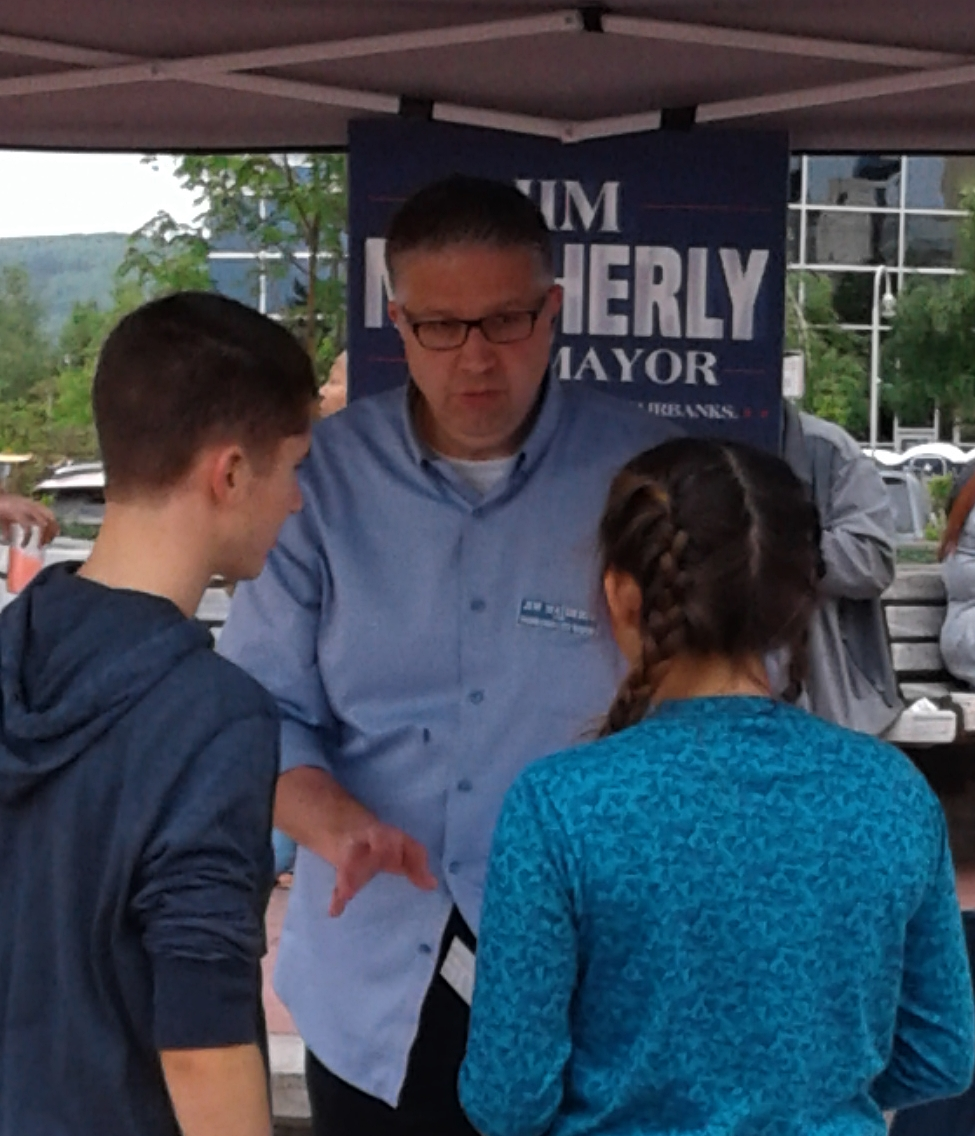 Jim Matherly is the mayor of the City of Fairbanks, Alaska, having been sworn in to the office on October 24, 2016. In this photo, he is shown speaking with a pair of youngsters while campaigning at the summer solstice street fair in downtown Fairbanks.